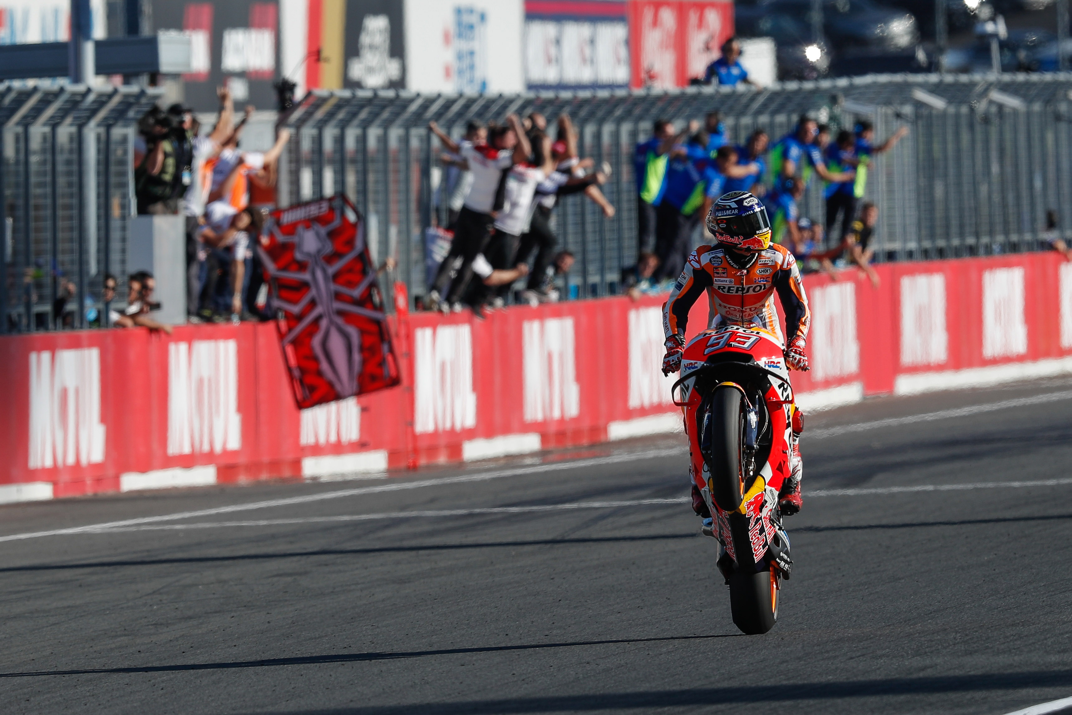 Marc Márquez, riding his Repsol Honda, crossing the line whilst doing a wheeling and winning his fifth MotoGP world championship title after winning the 2018 Japanese Grand Prix.